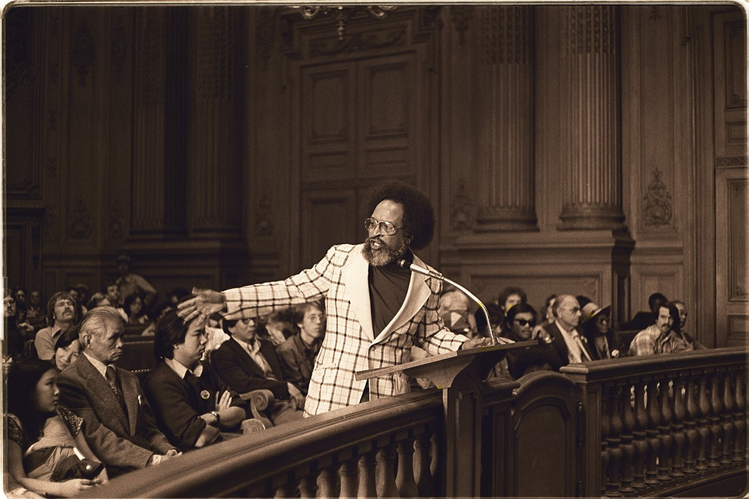 Cecil Williams in San Francisco City Hall's Board of Supervisors chambers speaking on behalf of the International Hotel tenants. photo by Nancy Wong, 1977